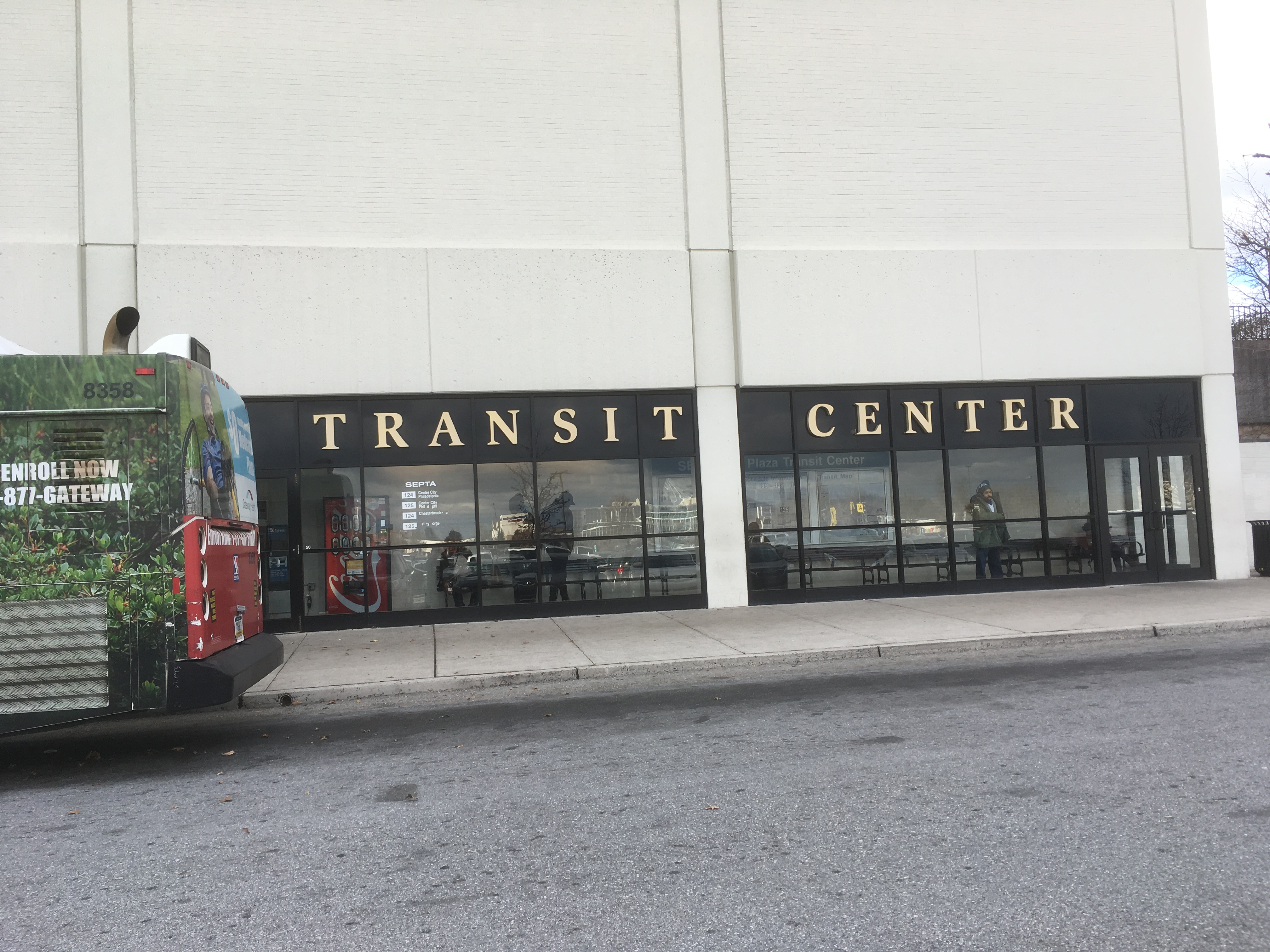 The shelter of the transit center of the King of Prussia Mall, served by SEPTA.